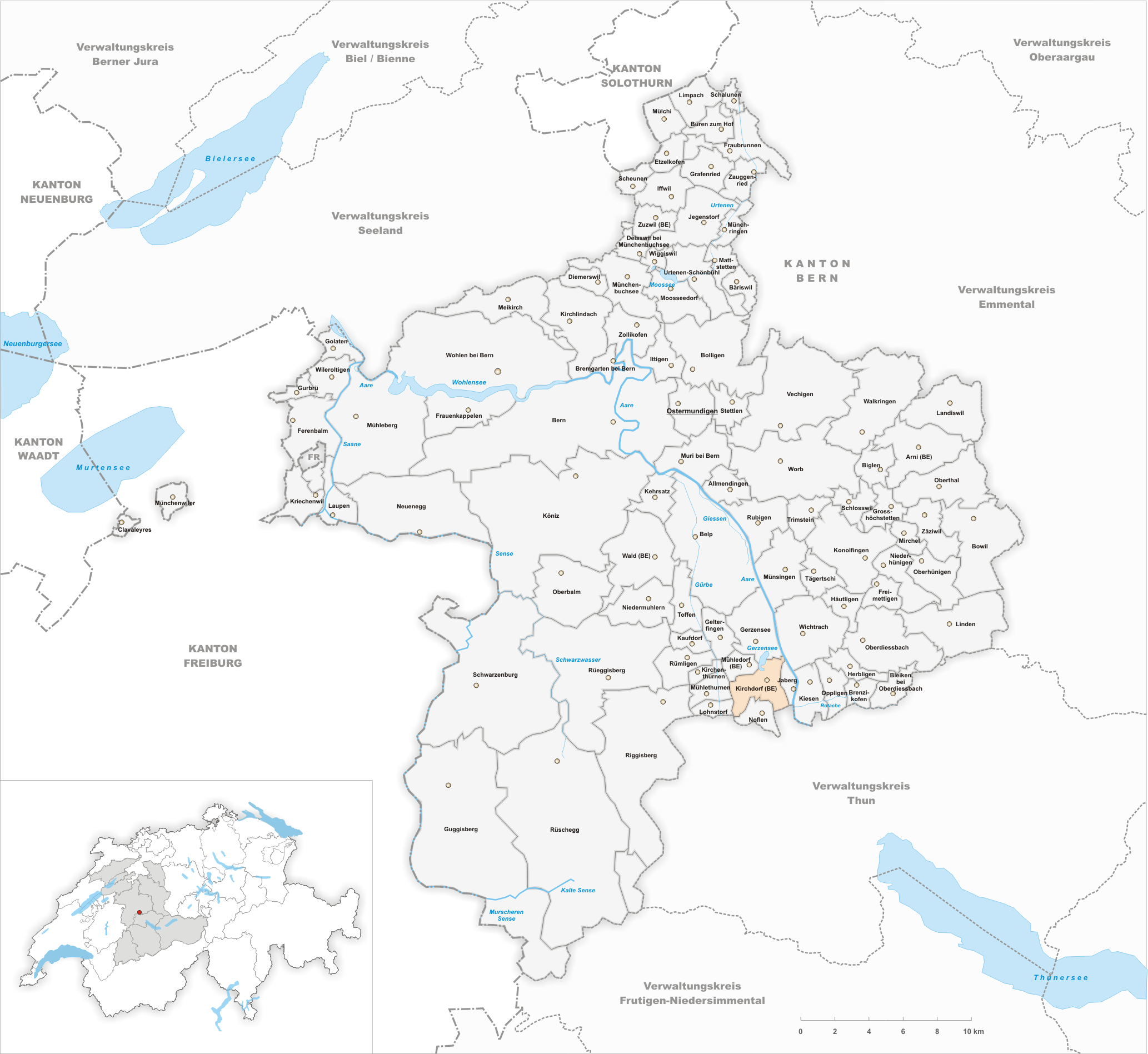 Municipality Kirchdorf